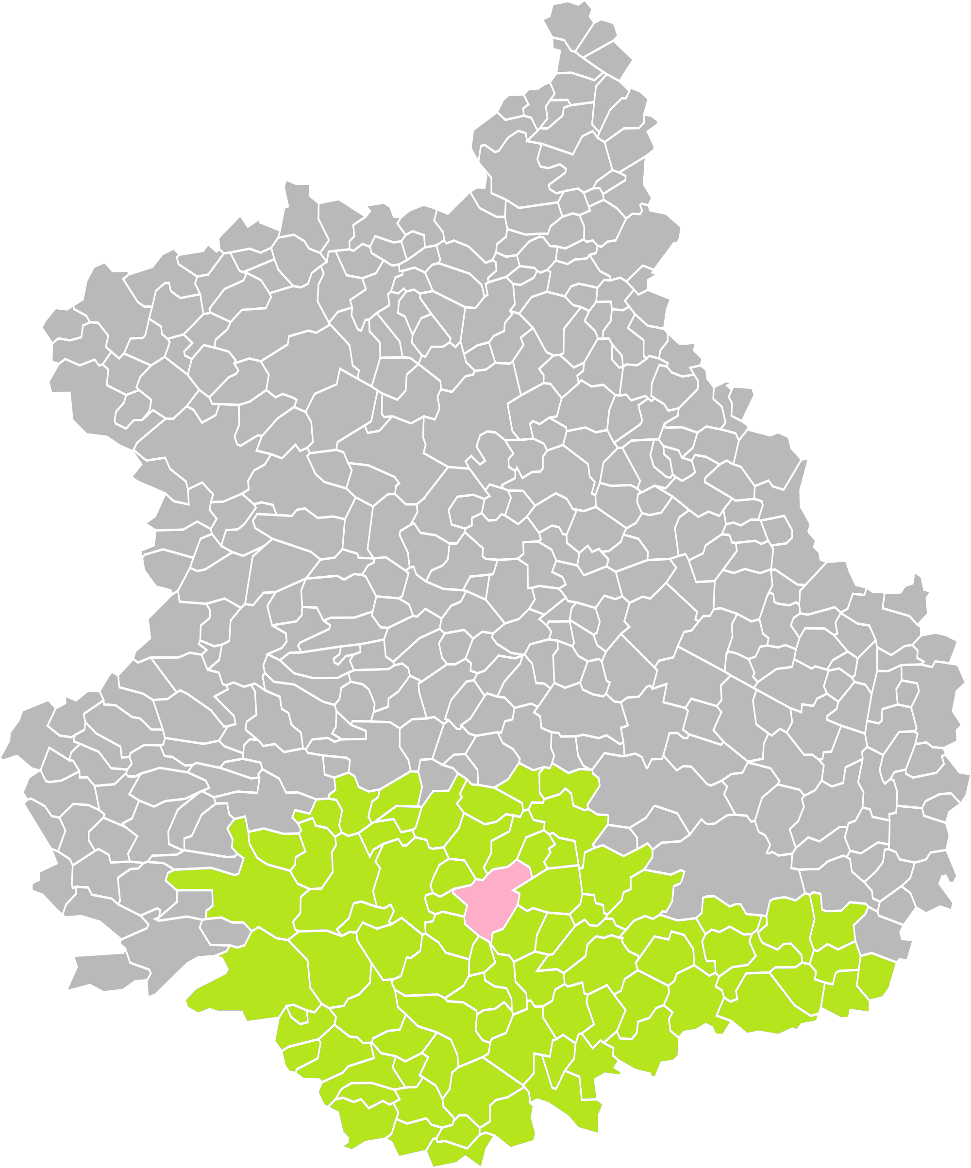 Location of the commune of Bonneval in the arrondissement of Châteaudun (Eure-et-Loir)